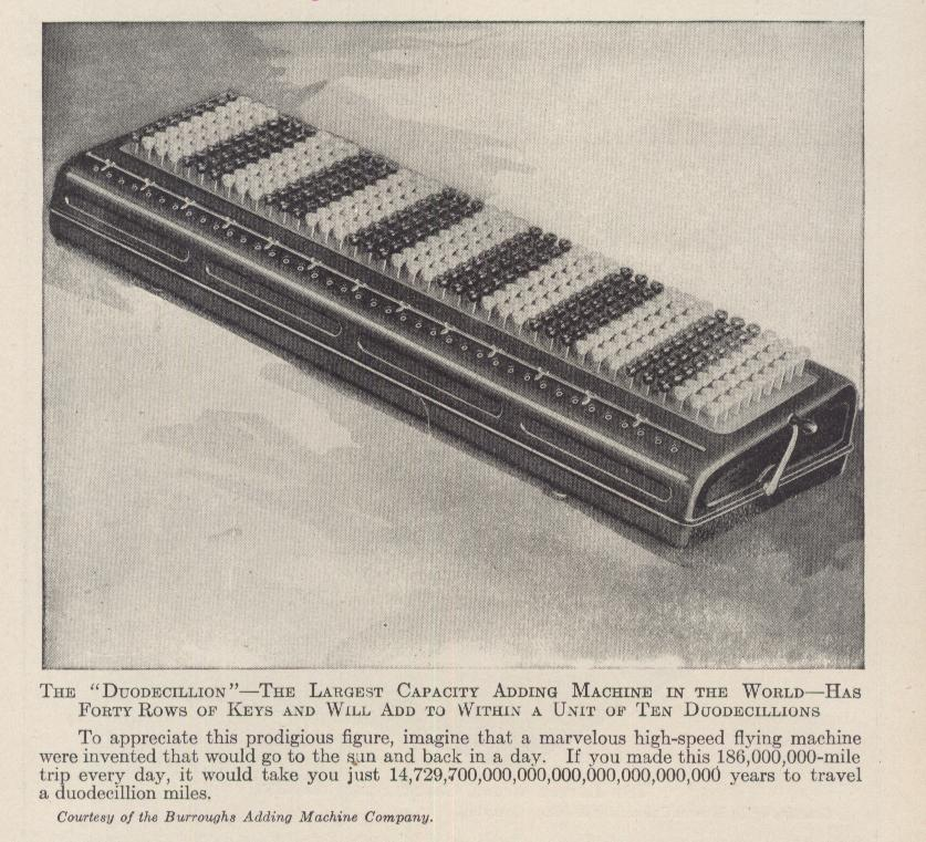 Duodecillion, a 40 digit Burroughs "Class 5 Calculator" (similar to Comptometer) presented in "Panama Expositions" (1915).